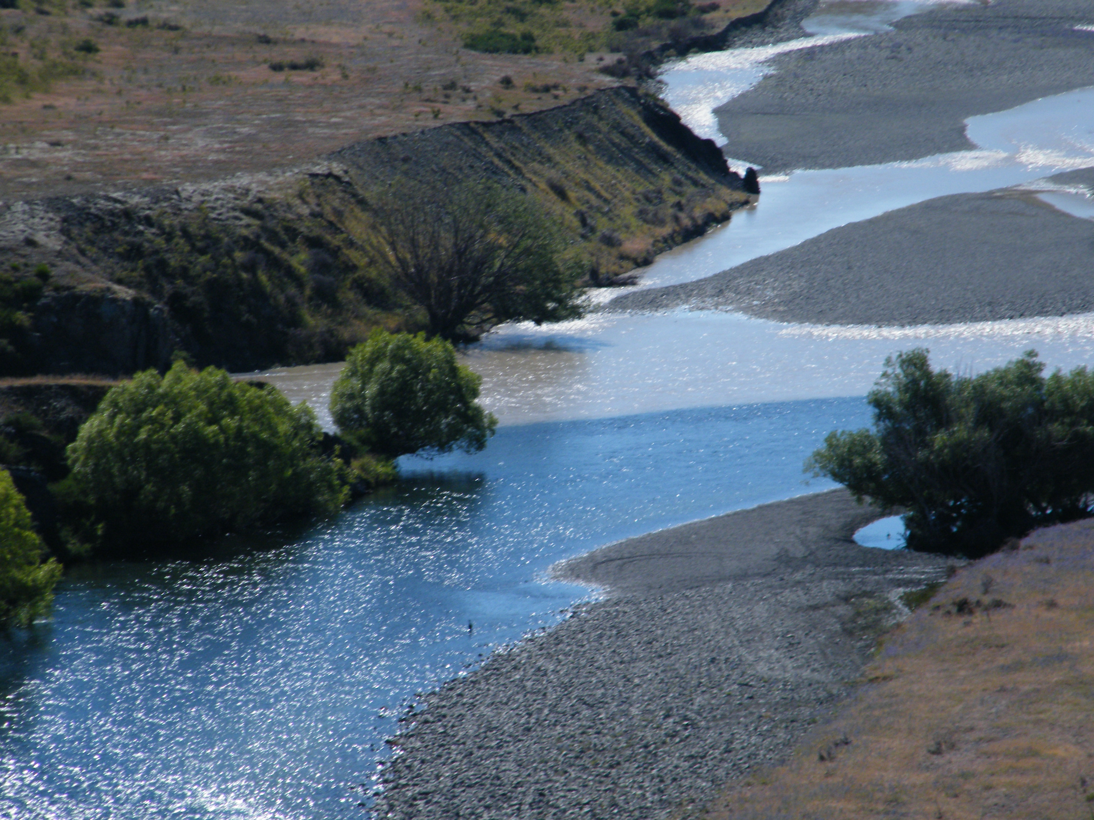 The Acheron River, muddy after overnight rain, joins the clear Clarence River, near the Acheron Cob Cottage.